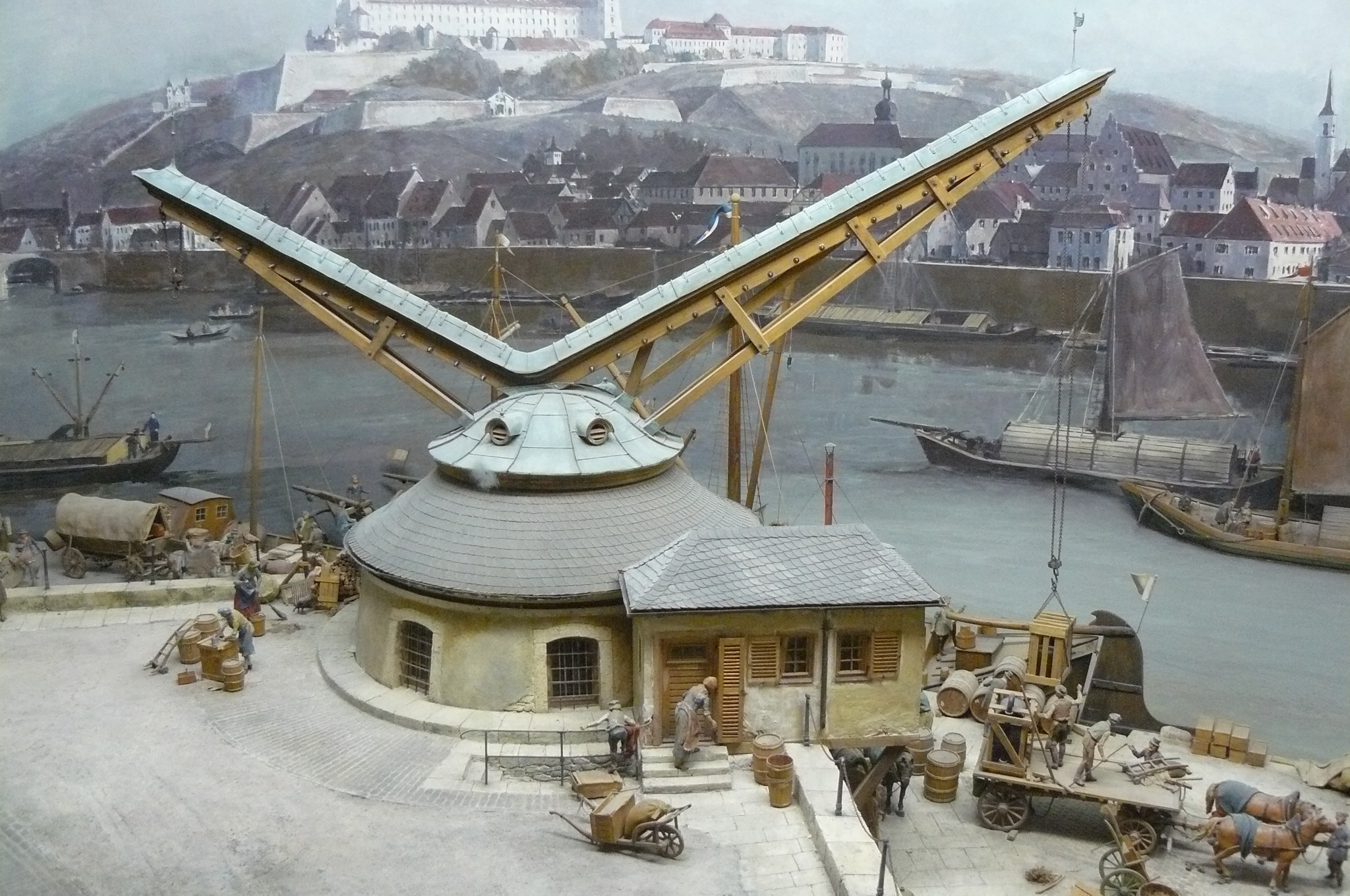 Model of Wurzburg Harbour Crane, built between 1767–1773 by Franz van Neumann. Seen in Deutsches Museum, Munchen (April 2012)